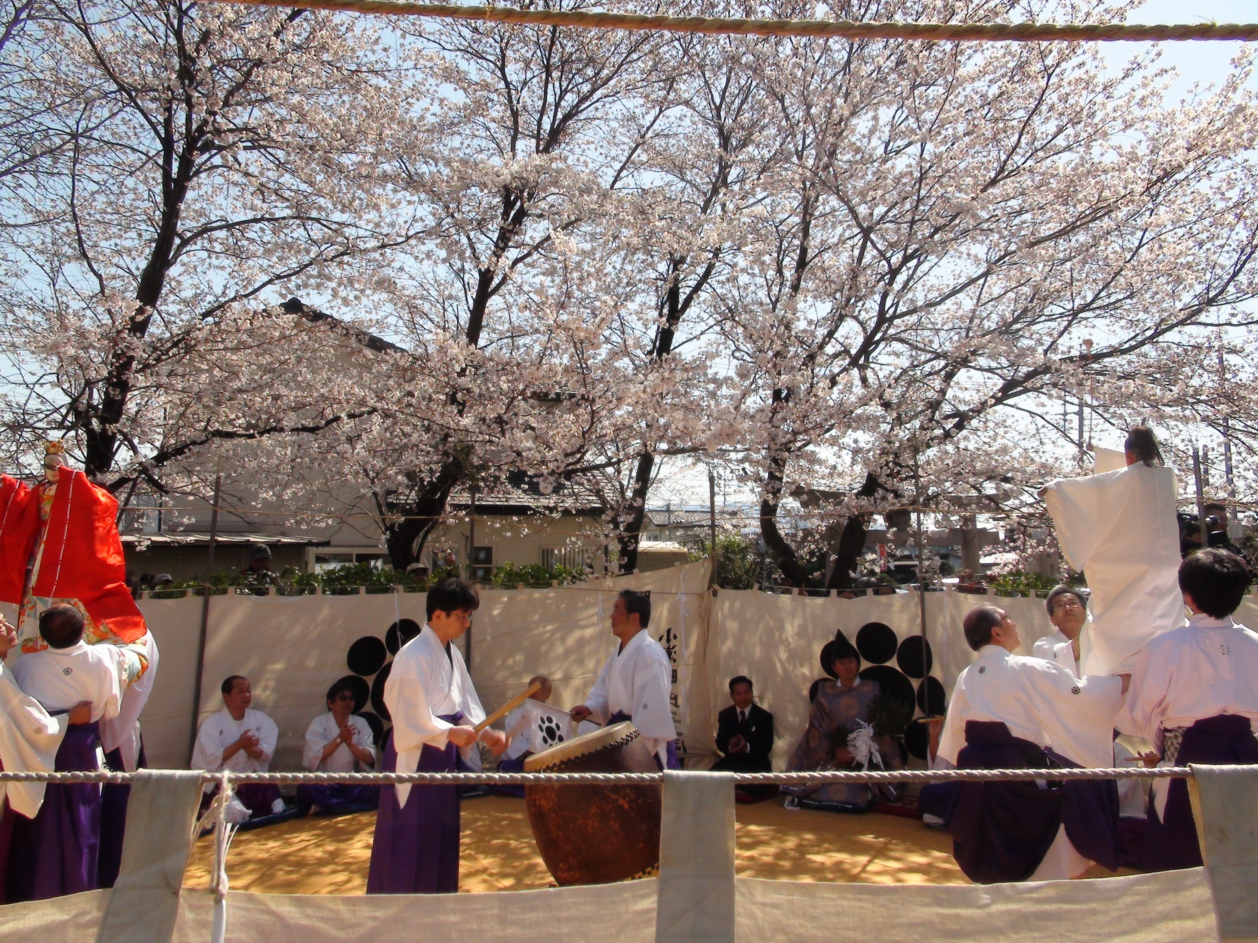 Tenzushi-mai venue for dance, OFUNEGAKOI are surrounded by a circular curtain